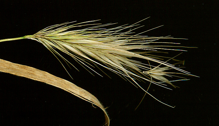 Spikelet cluster disarticulating from spike of Hordeum murinum Source: Curtis Clark